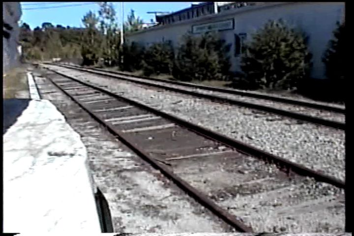 Rutland Burlington railway is passing through the town of Proctor, VT next to Vermont Marble Museum